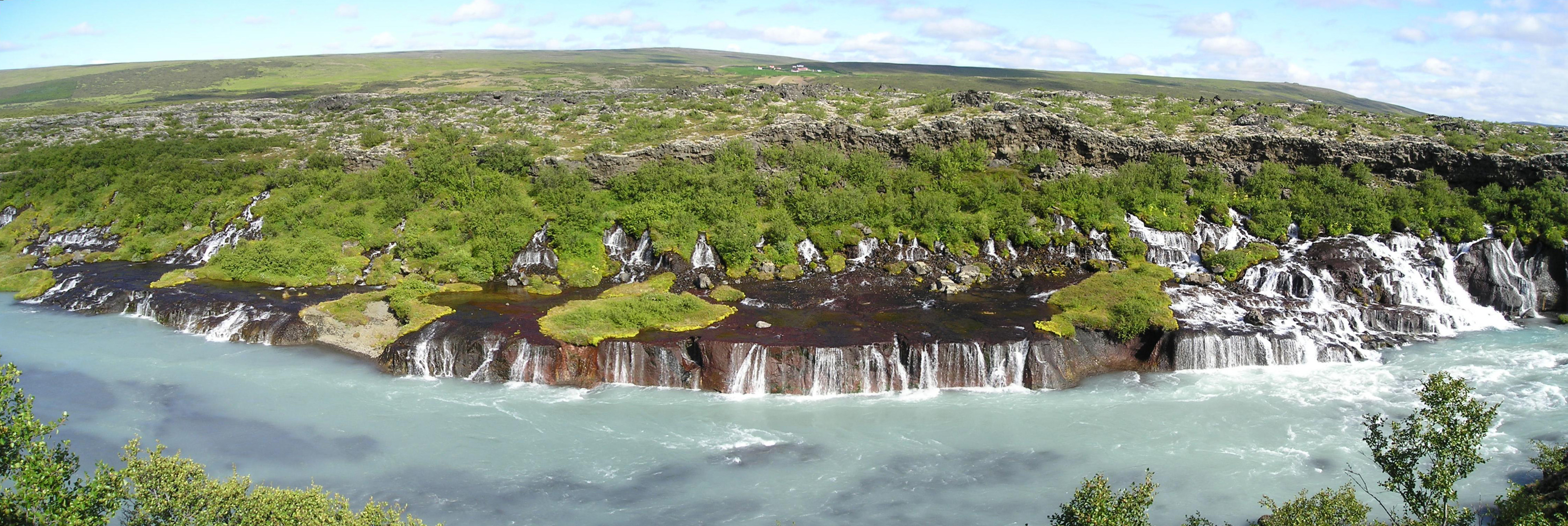 Panoramic view of the falls of Hraunfossar, Iceland.